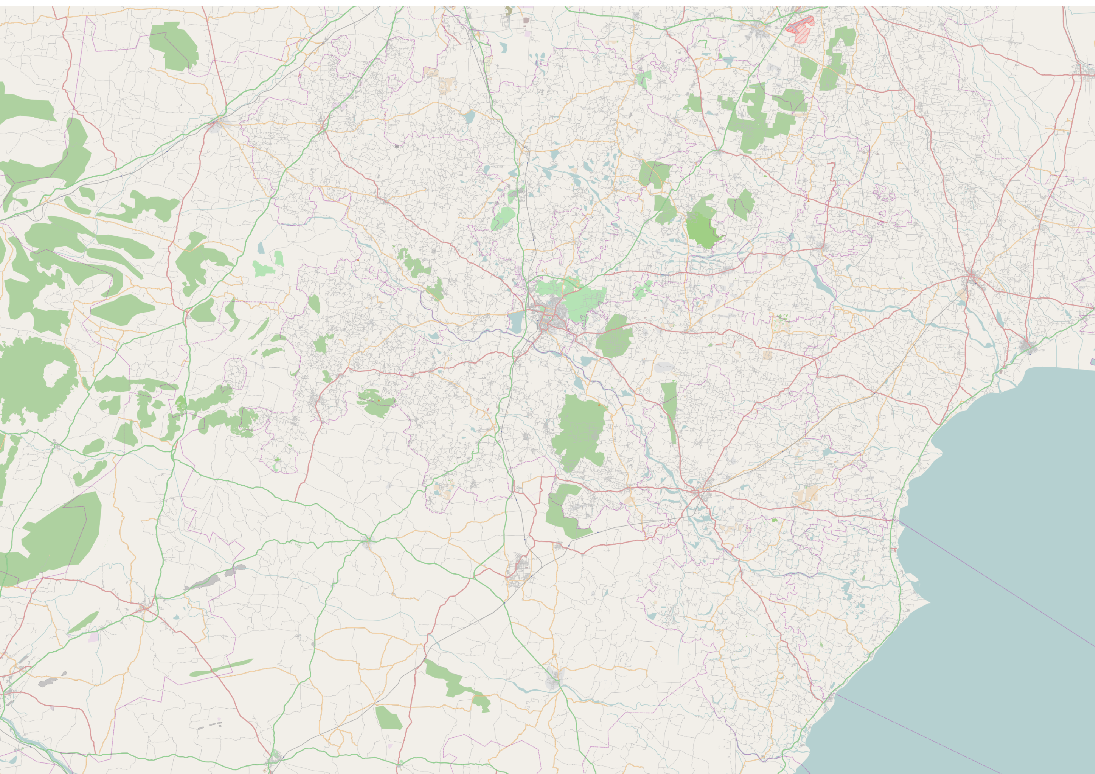 A locator map of Pudukkottai District. Geographic limits of the map: top = 10.745 bottom = 9.835 left = 78.165 right = 79.462